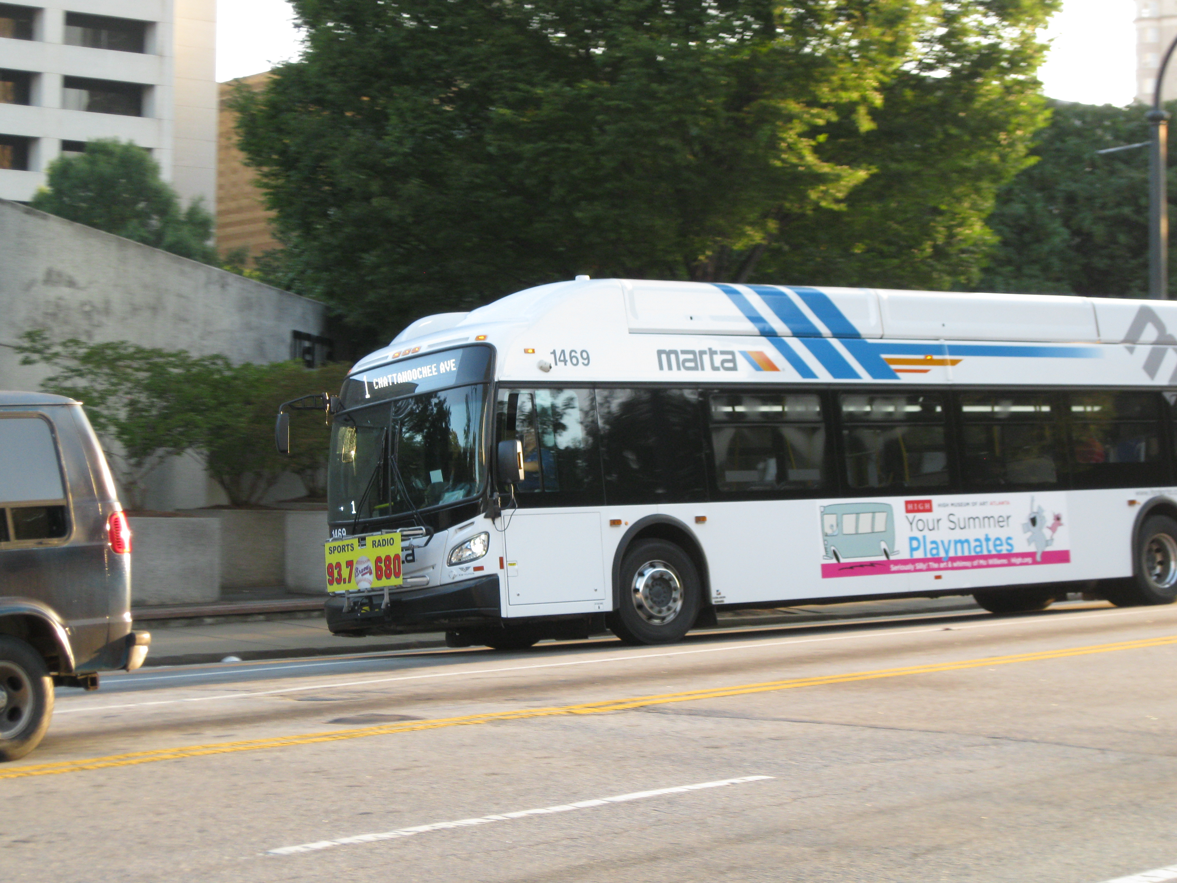 MARTA 2013 Xcelsior on the 1 Bus leaving North Av Station.